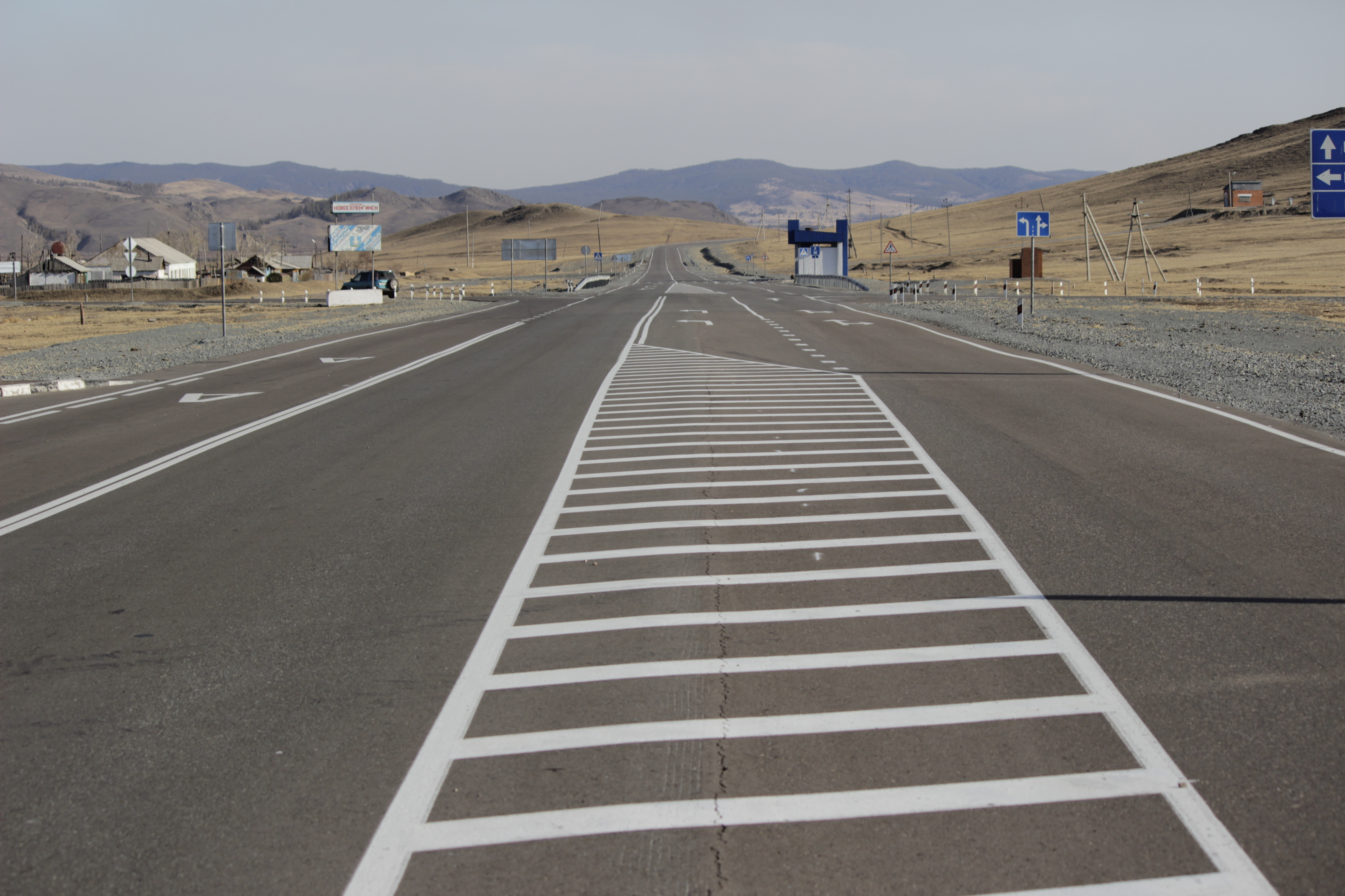 A165 road, leading from Ulan-Ude to Kyakhta, further - to Mongolia. The site near the village Novoselenginsk, Buryatia.